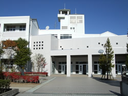 TOMIYA high school